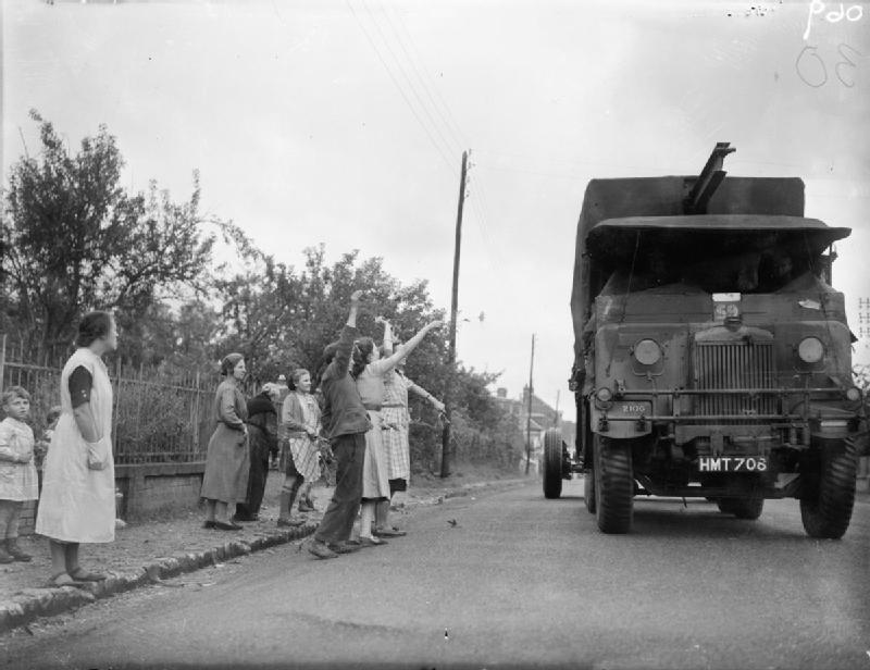 The British Expeditionary Force (bef) in France 1939-1940 The BEF arrives in France, September - October 1939: French civilians at Bernay wave as a British transport convoy passes through the village.